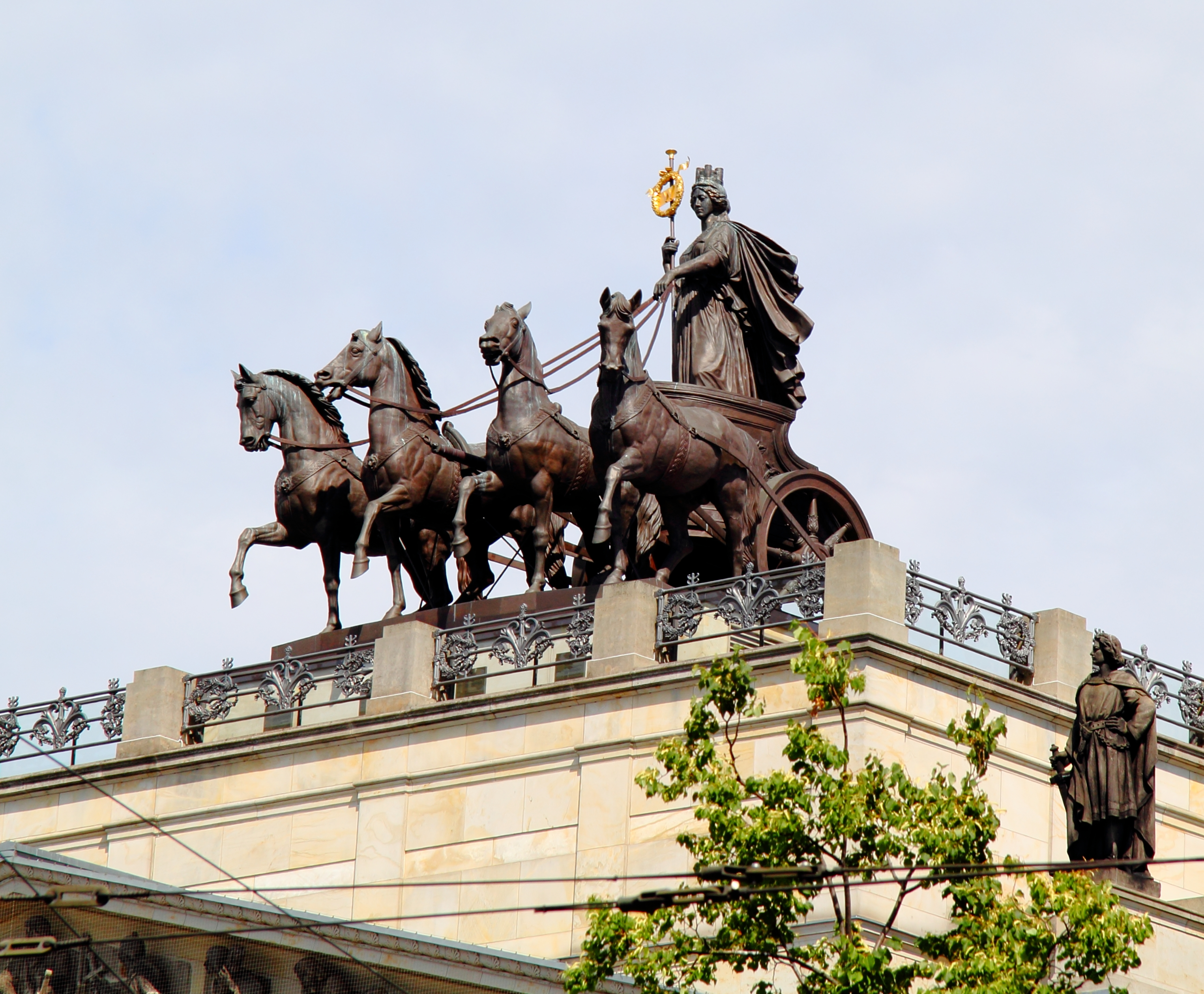 Braunschweig: statue of Brunswick Quadriga on top of en: Brunswick Palace